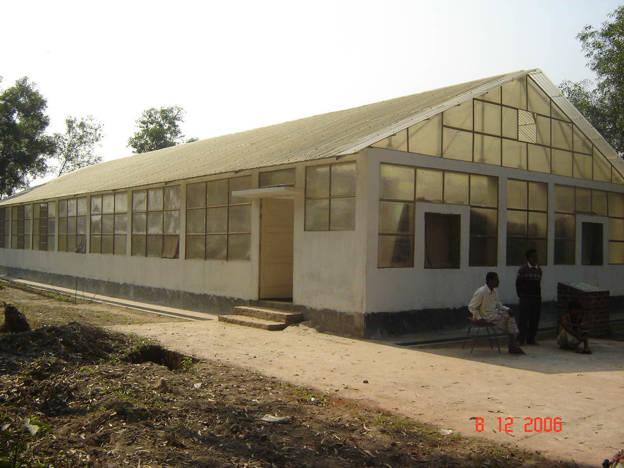 Bangladesh Agricultural University, greenhouse